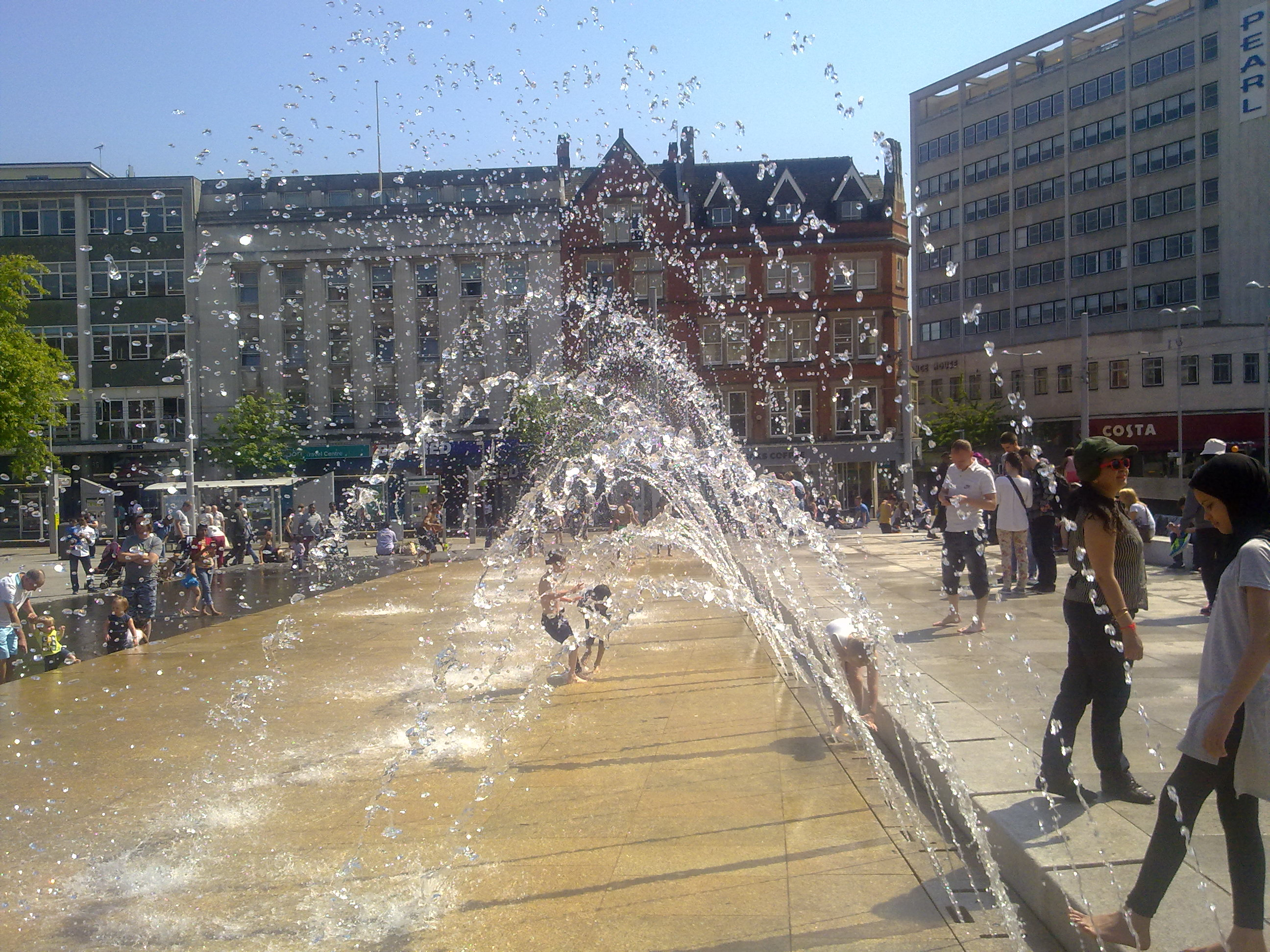 On a Summers Day the water feature is absolutely brilliant.